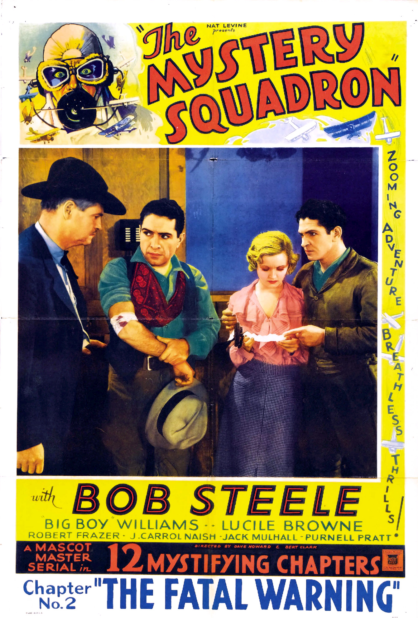 Poster for the 1933 film The Mystery Squadron. There are no copyright marks. At bottom left is Made in USA. At bottom right is 2223.